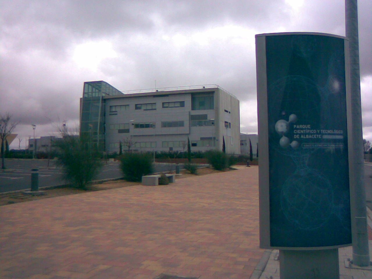 Main building